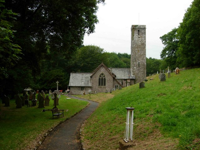 Stackpole Elidor Church. Stackpole's church is located in the tiny hamlet of Stackpole Elidor, or Cheriton, a mile or so from Stackpole village. In spite of its remote location, it is well looked after.